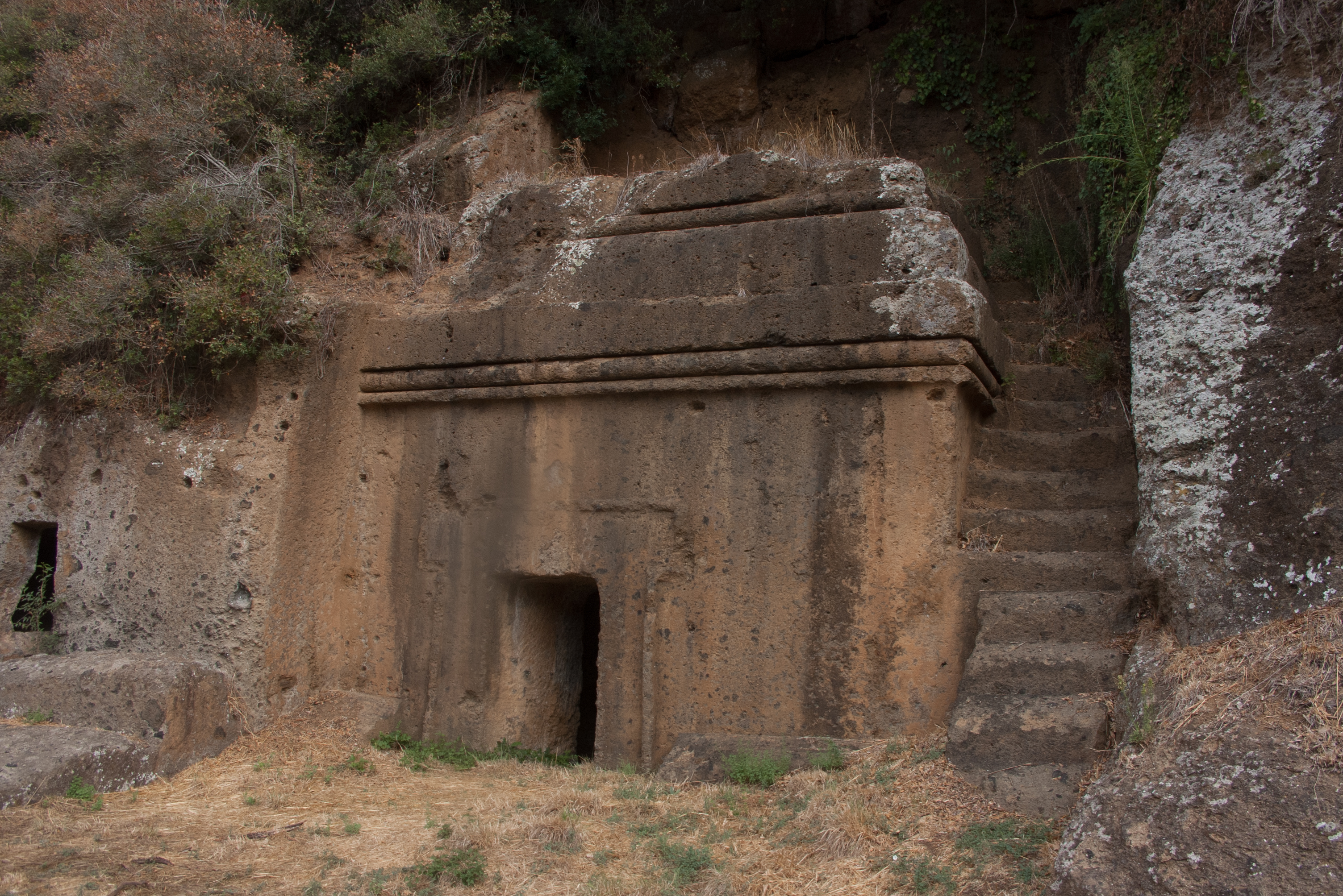 Etruscan tomba a dado ("cubic tomb") in the Necropoli della casetta, Blera, Italy.